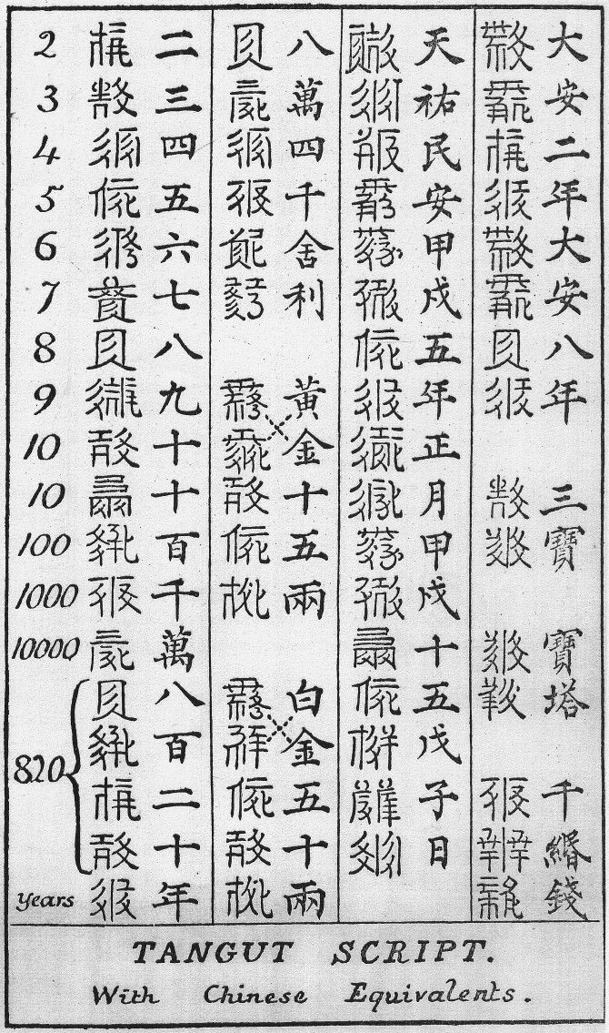 Table of Tangut characters deciphered by S.W. Bushell in his article "The Hsi Hsia Dynasty of Tangut, Their Money and Peculiar Script" (Journal of the North China Branch of the Royal Asiatic Society Vol.XXX (1895-1896).